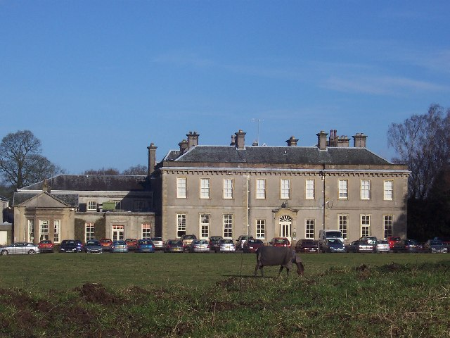 Gisburne Park. Gisburne Park, Gisburn - the village has dropped the "e". Once a country estate I believe it is now headquarters of some international company